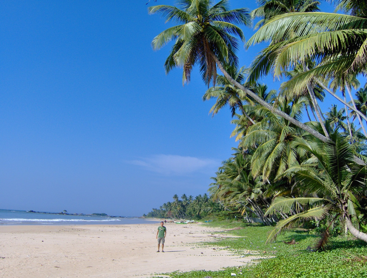 Beach of Matara, South Sri Lanka